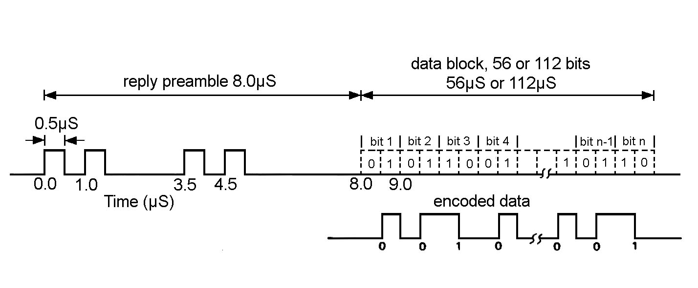 Standard industry diagram of a Mode S reply